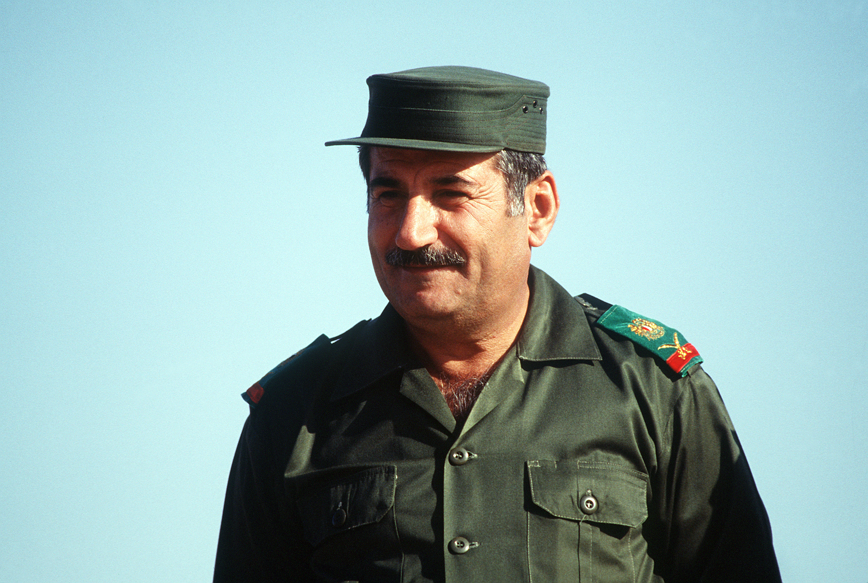 The commanding general of the Syrian army forces reviews his troops prior to the arrival of a visiting dignitary during Operation Desert Shield.